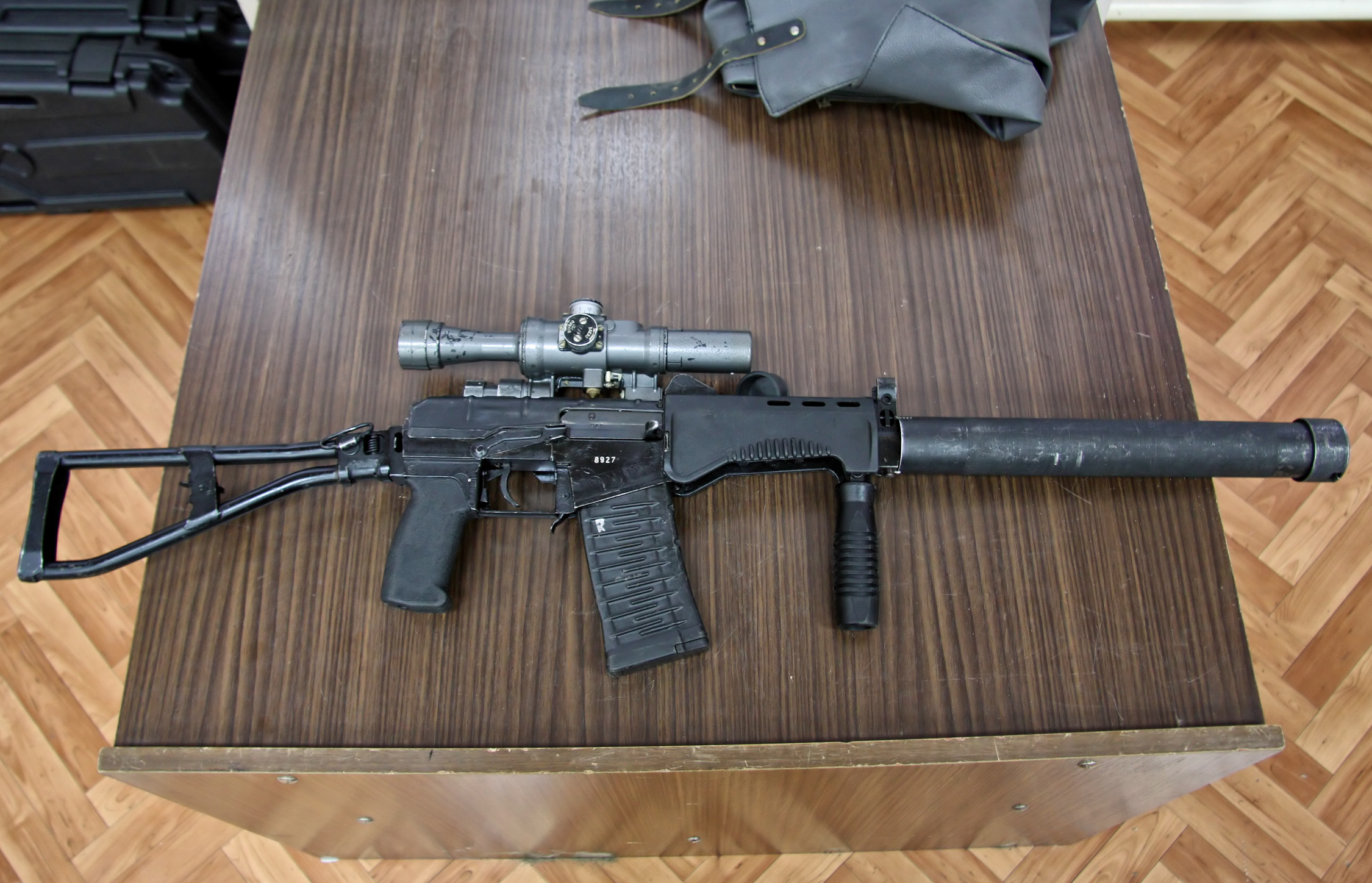 SR-3M rifle